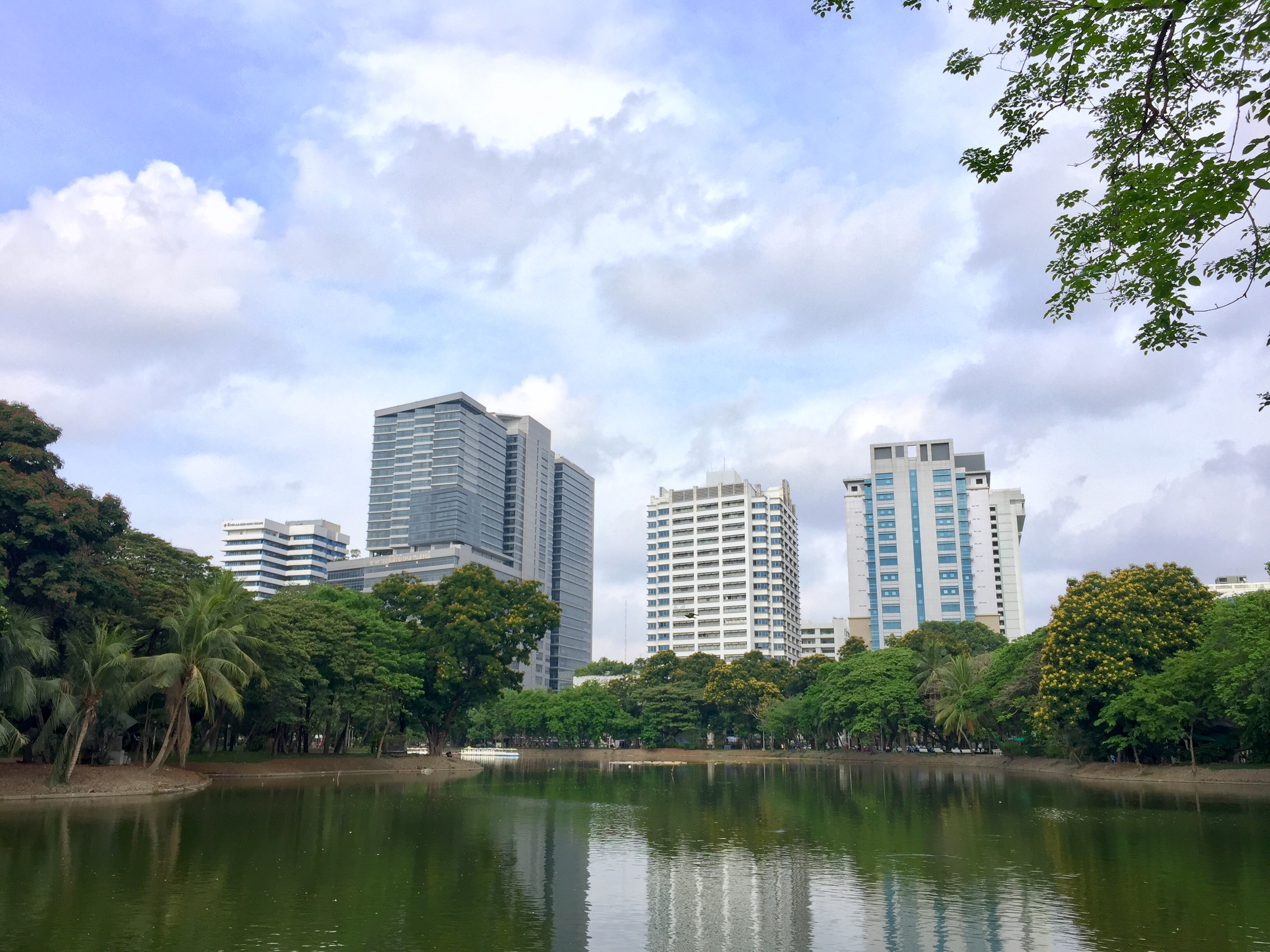 King Chulalongkorn Memorial Hospital and Faculty of Medicine, Chulalongkorn University seen from Lumpini Park